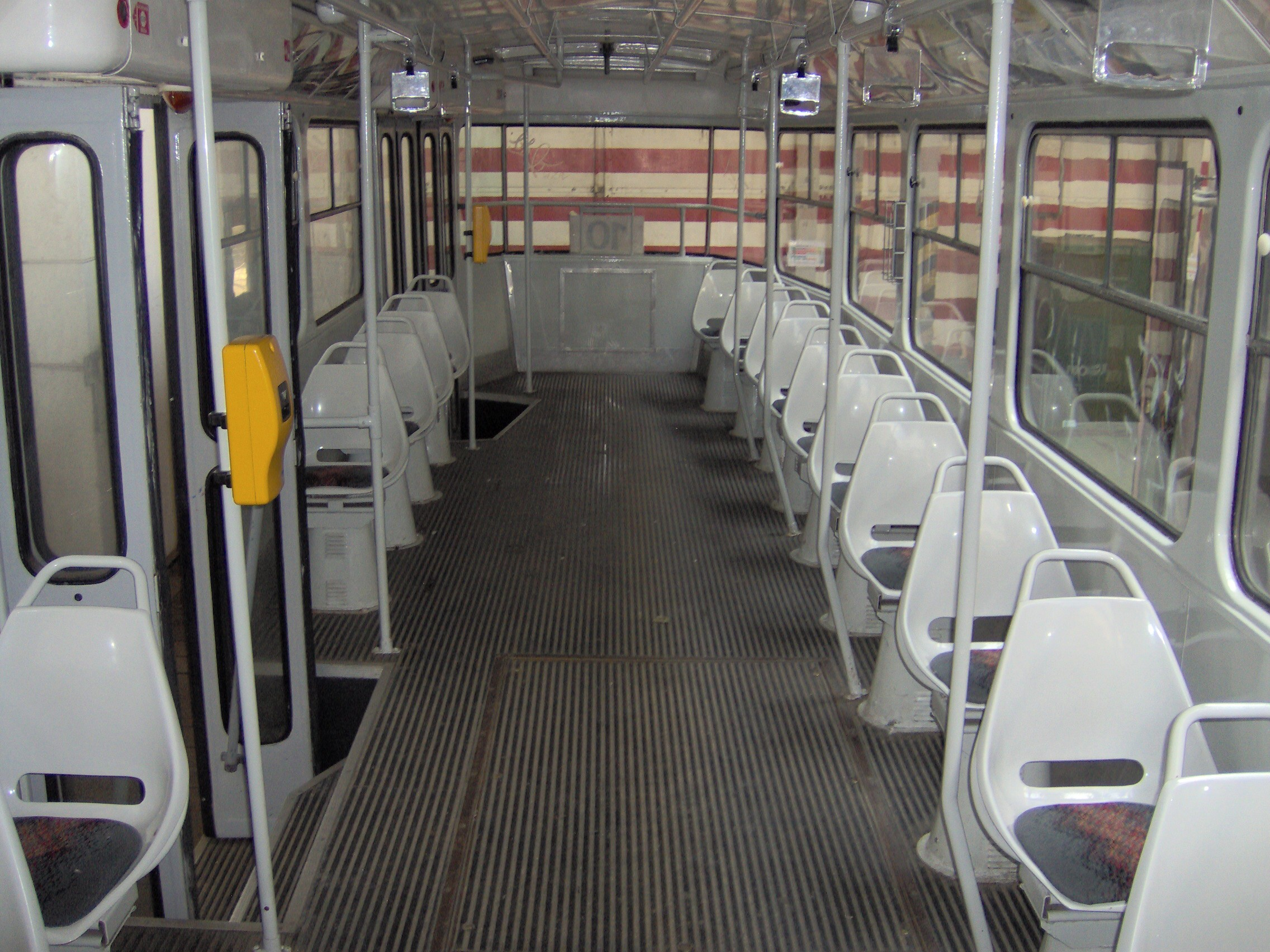 Interior of Tatra T3 tram, Medlánky depot, Brno, Czech Republic